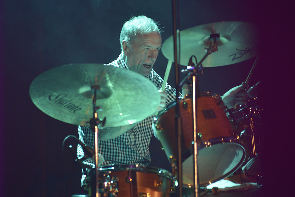 Concert photography: drummer John Steel (The Animals) during concert in Bielsko-Biala, Poland 2016